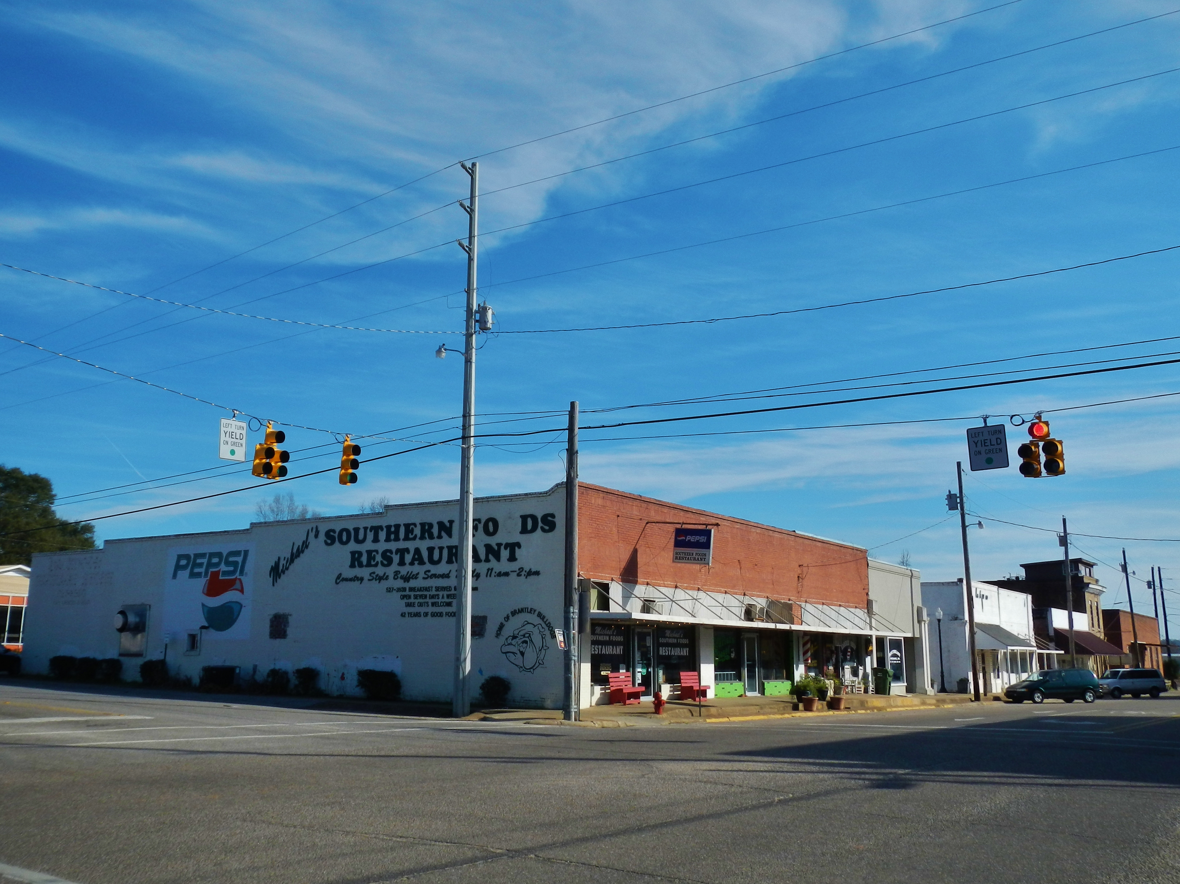 This is a photograph of Brantley, Alabama.